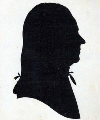 Massachusetts/Maine Brigadier General and politician Peleg Wadsworth (also grandfather of Henry Wadsworth Longfellow).